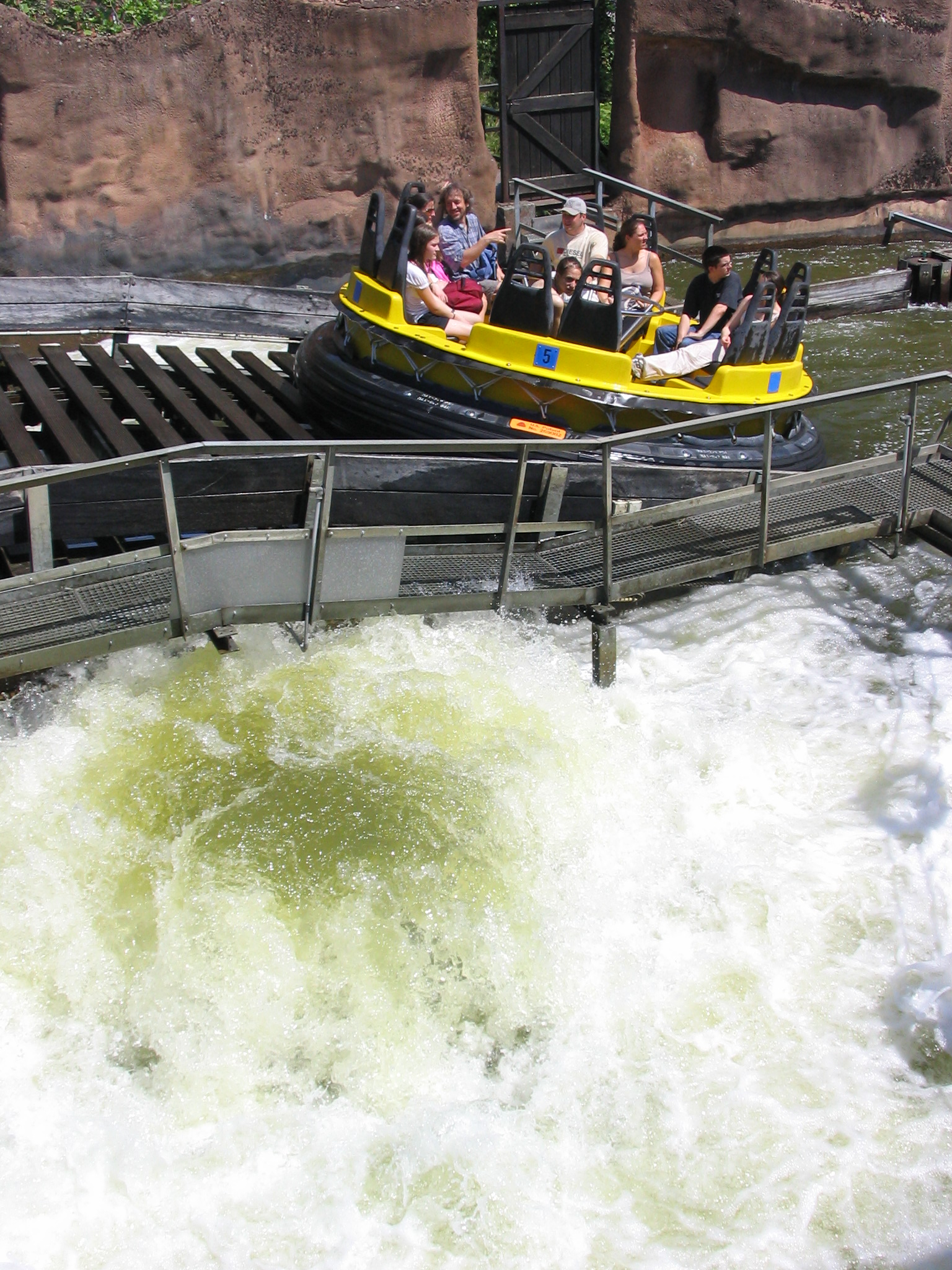 Radja River, Walibi Belgium, Belgium.